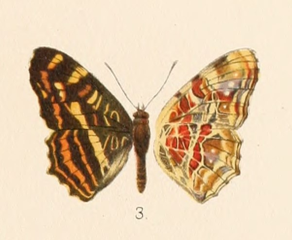 Araschnia prorsoides var. levanoides John Henry Leech - Butterflies from China, Japan and Corea - Plate 26